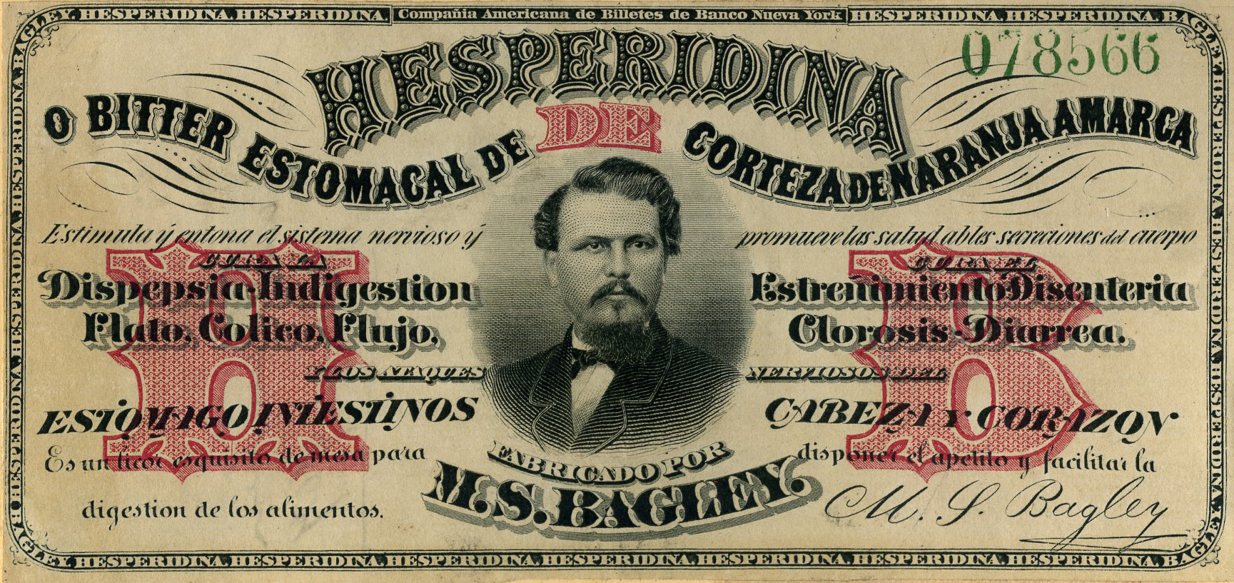 Label of the Hesperidina liqueur.